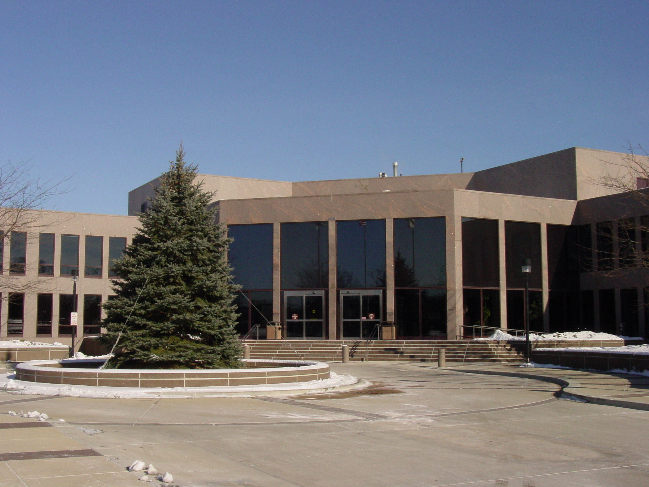 Entrance of City Hall, 400 South Eagle Street, Naperville, Illinois, USA.